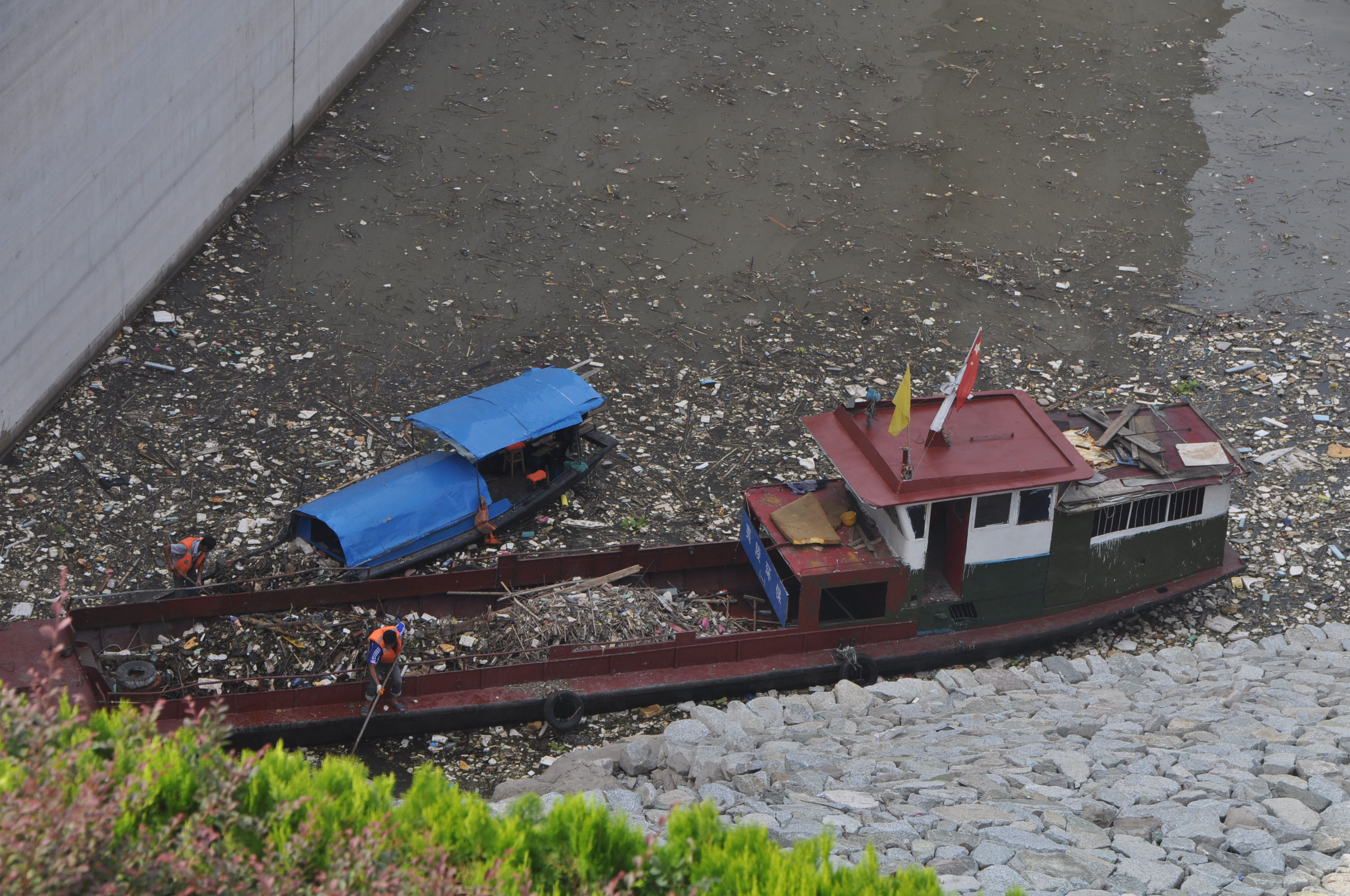 Collecting Garbage at Three Gorges Dam on the Yangtze River, China